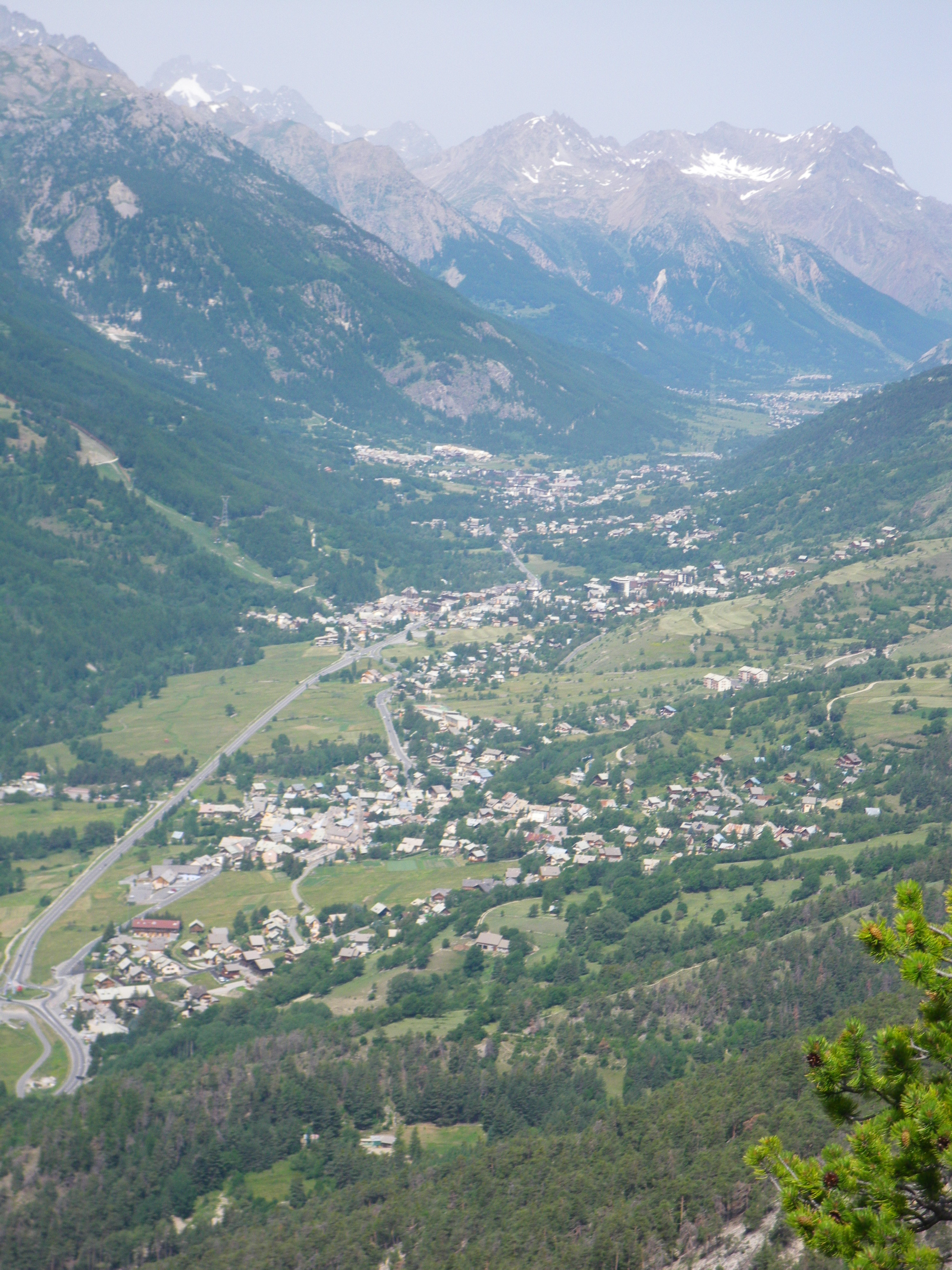 Vallée de la Guisane, Hautes-Alpes, France